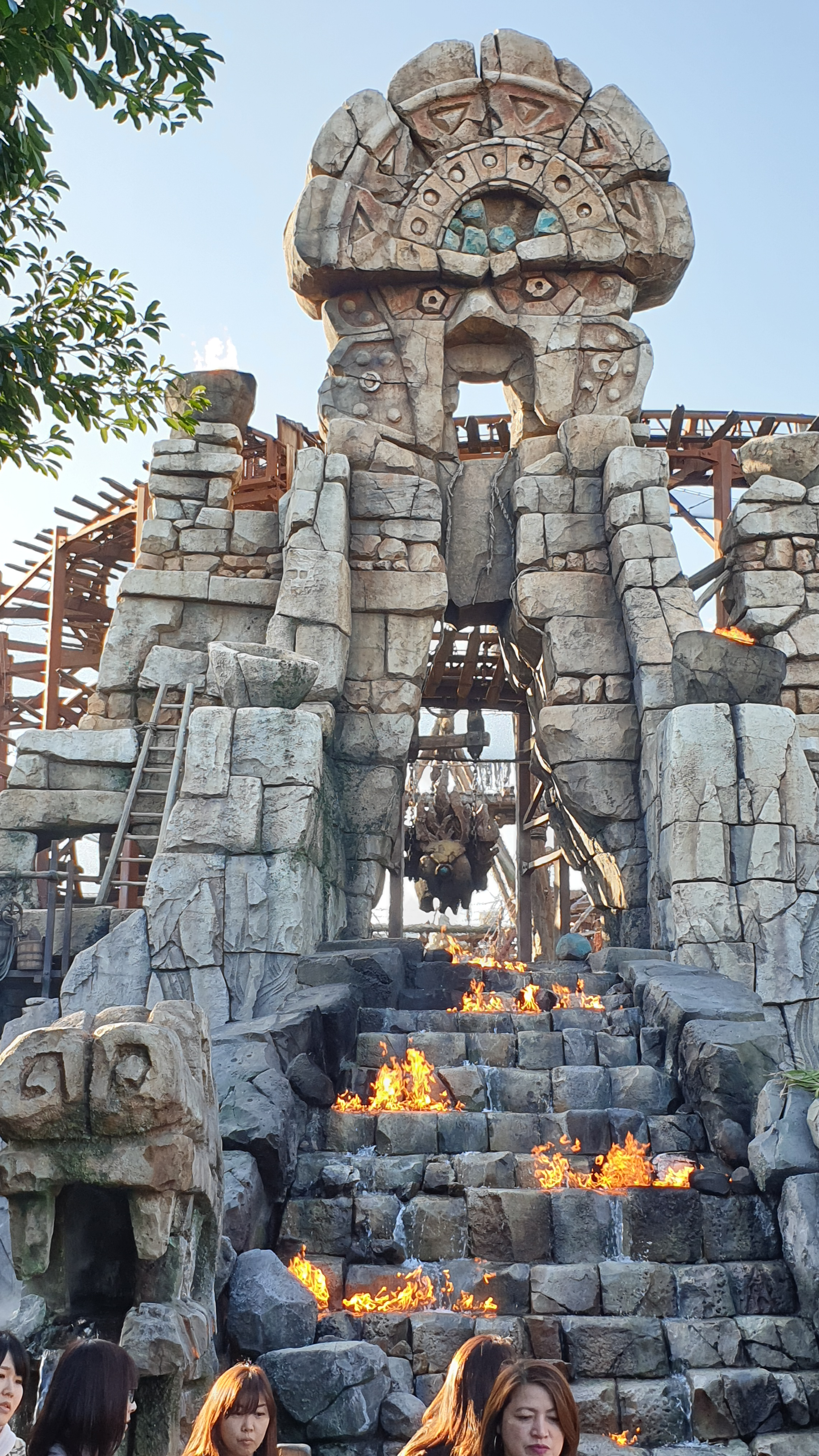 Raging Spirits (Tokyo DisneySea) Nov 2019